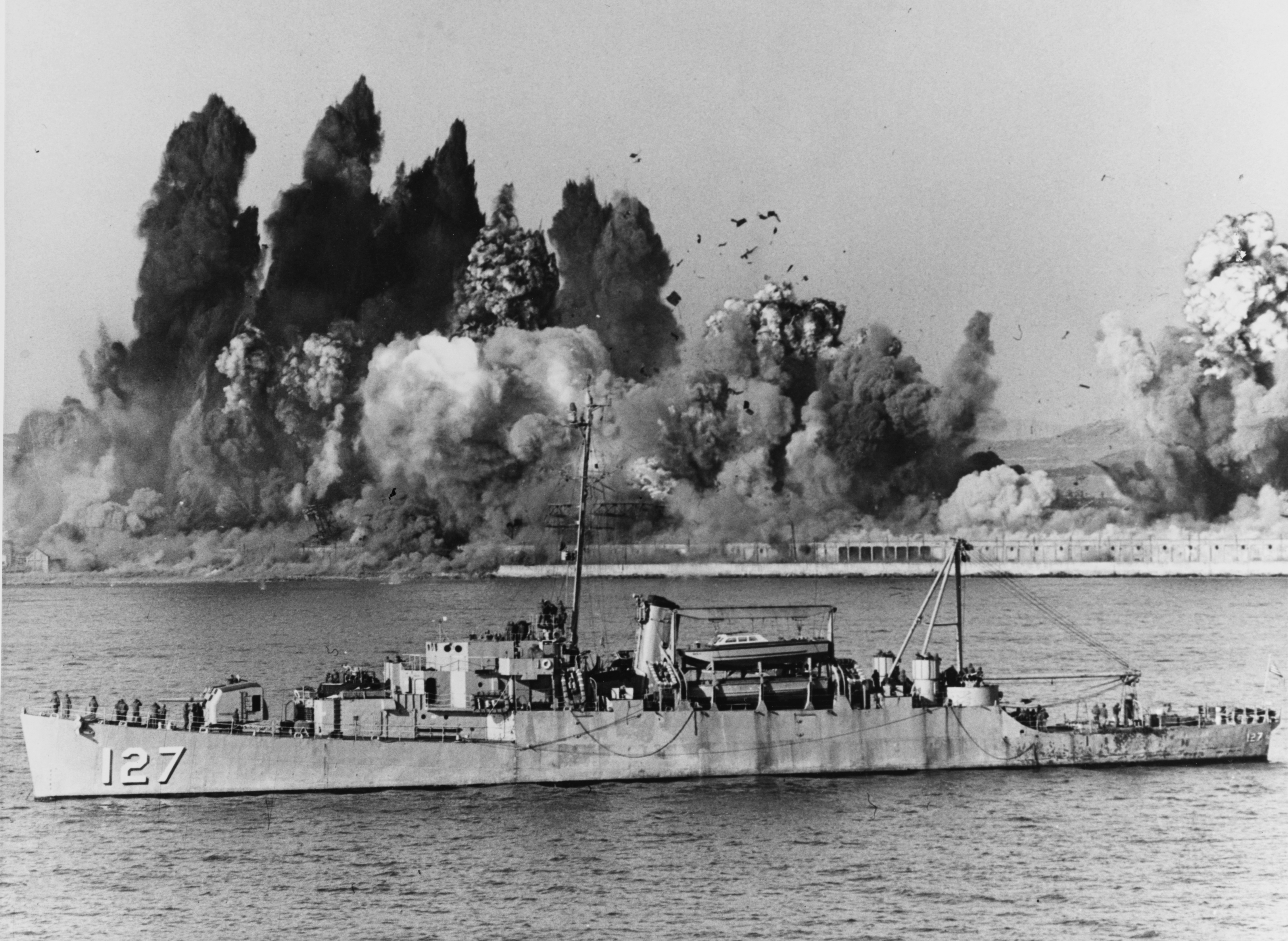 During the evacuation of Hŭngnam, Korea, on 24 December 1950, the U.S. Navy high-speed transport USS Begor (APD-127) stands offshore, ready to embark the last UN landing craft, as demolition charges wreck Hŭngnam's port facilities.